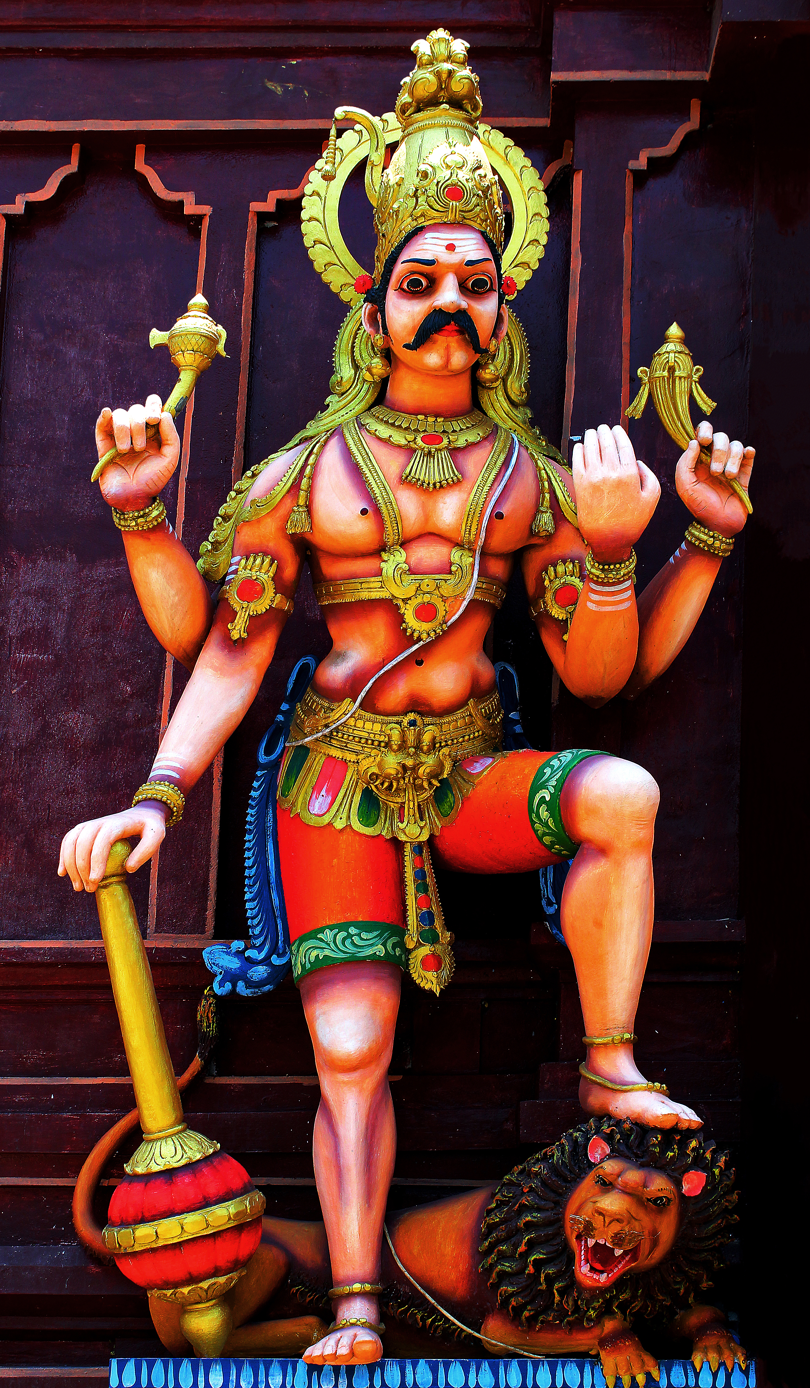 Dvarapala (door guard) statues are common in Sri Lanka for both Hindu and Buddhist traditions. Earlier they were crafted in granite and other materials. Today, they make from cement, plaster of paris, etc. Plasterer artists make gate guardian statue per Tamil folklore which influences from Tamil Nadu, and they resemble Karuppu Sami, Aiyanar, Muneeswarar, etc. This photo has been taken in the country: Sri Lanka